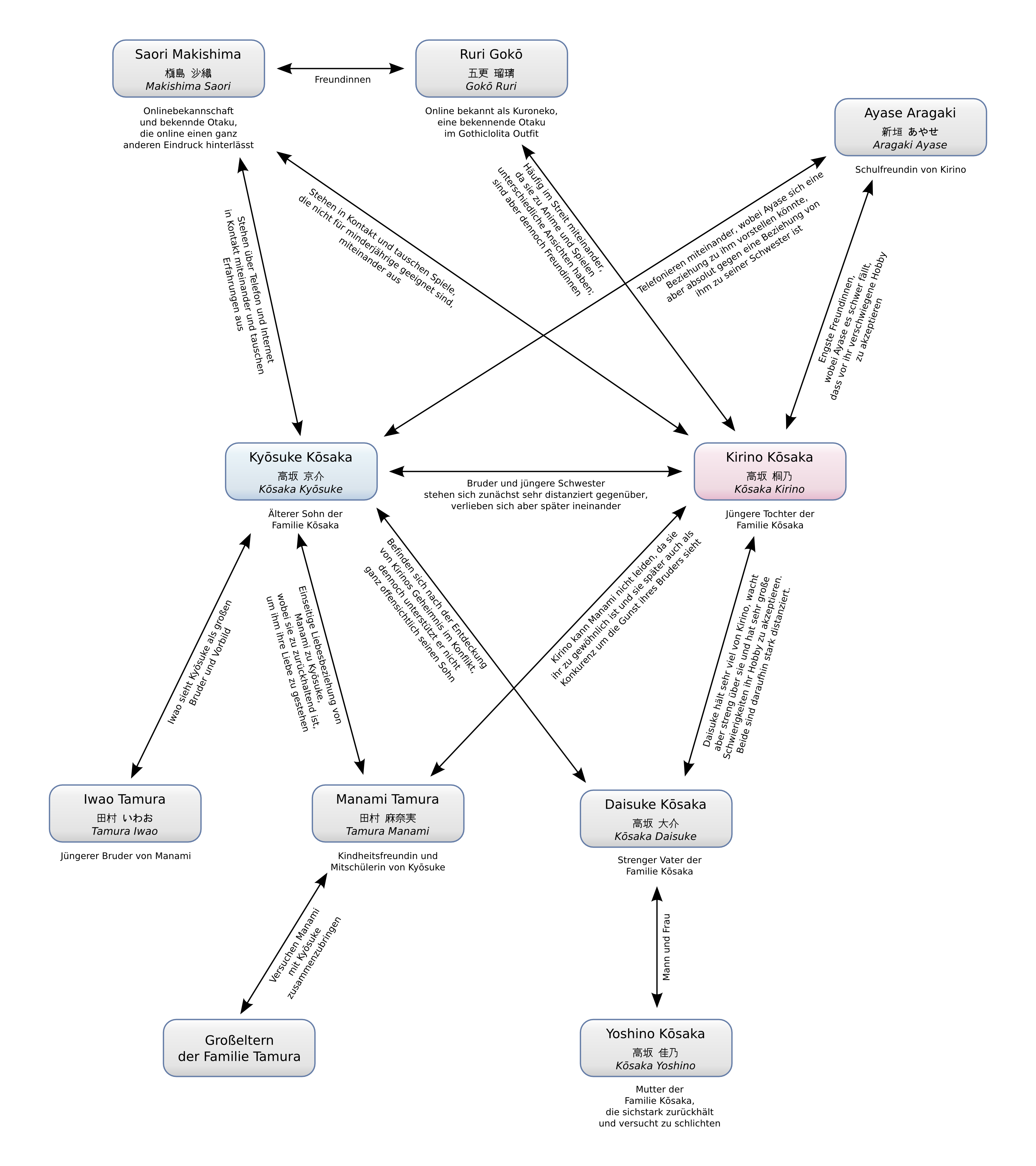 Simplified figure constellation from Ore no Imōto ga Konna ni Kawaii Wake ga Nai